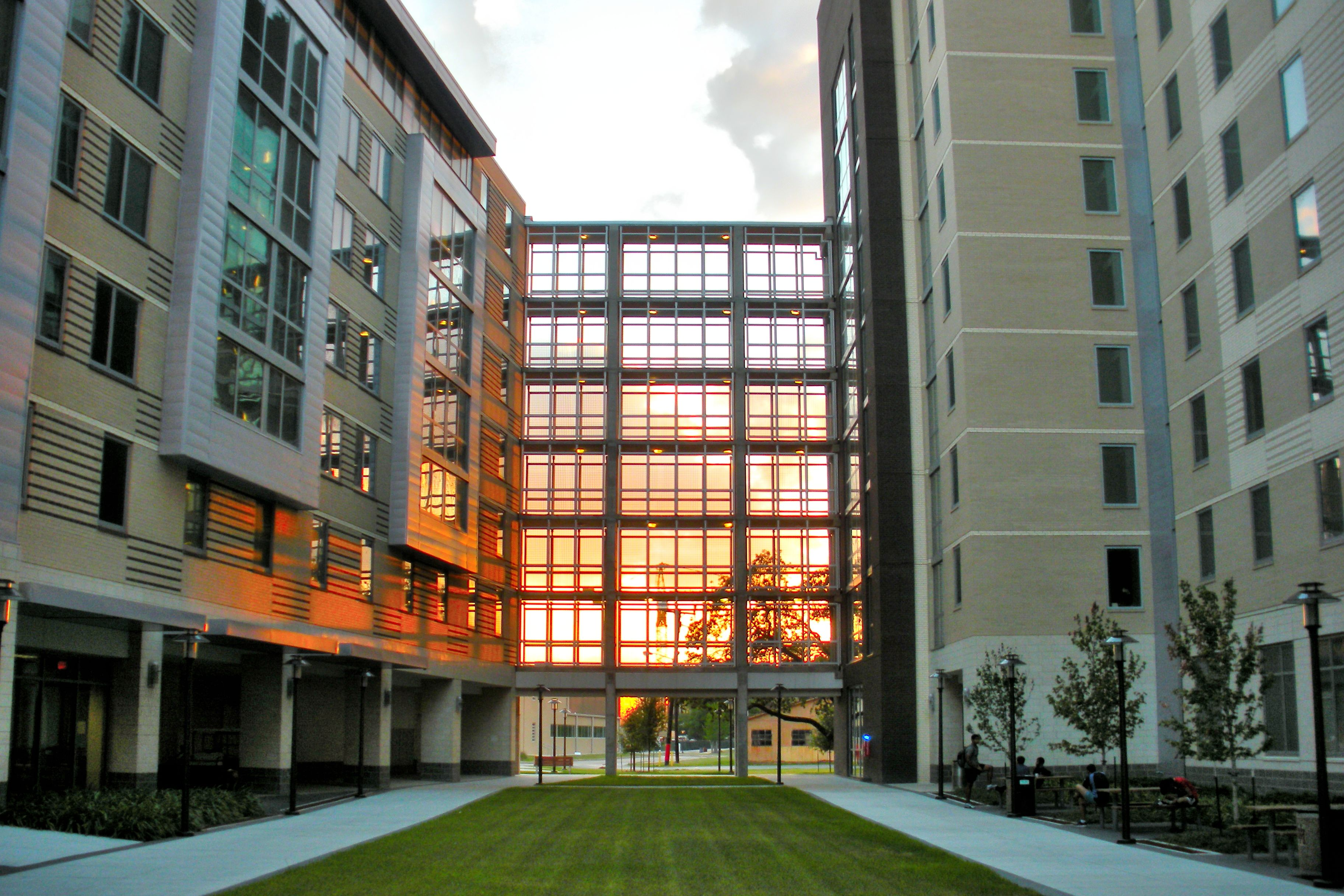 Calhoun Lofts on the campus of the University of Houston